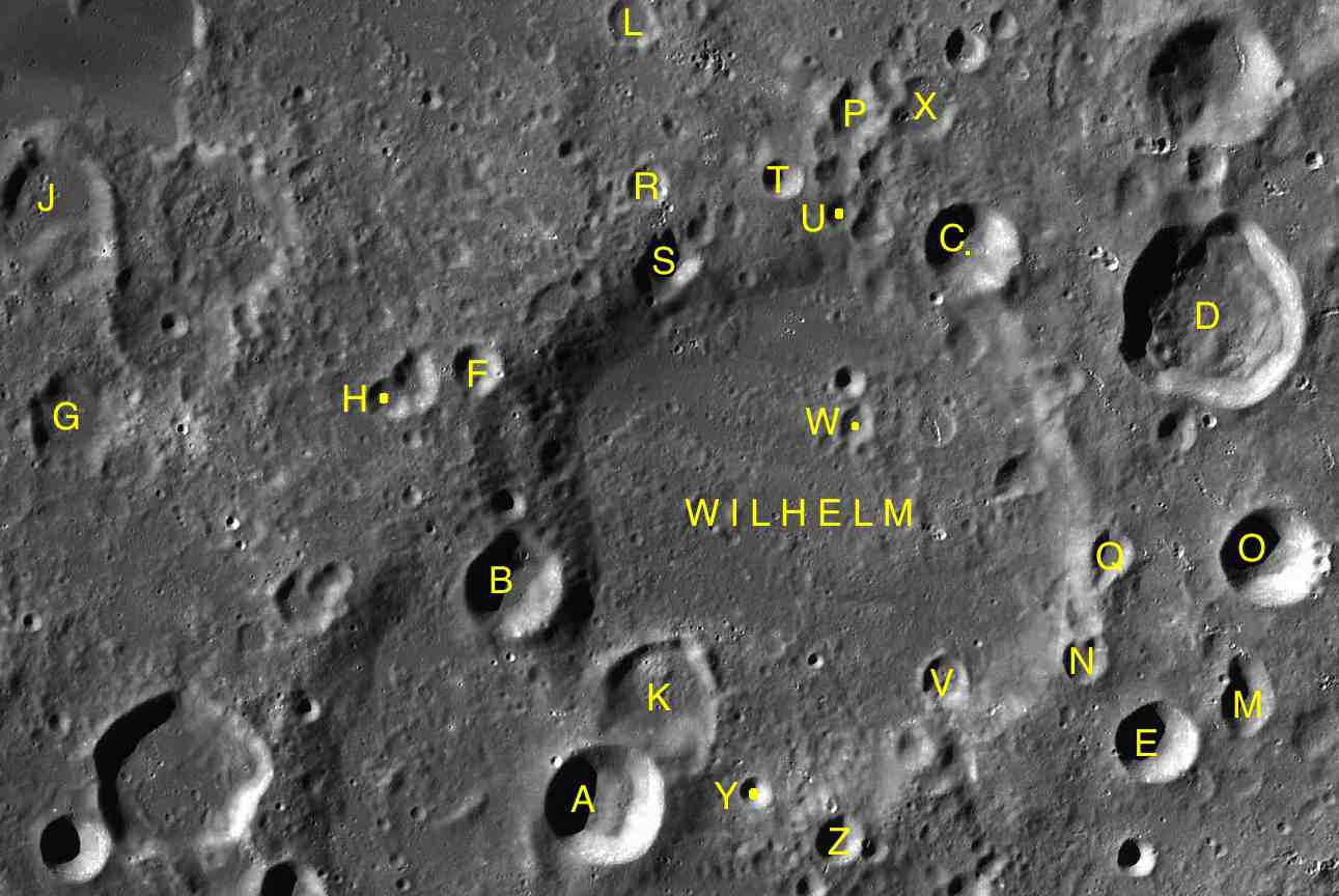 Part of the chart LAC-111 used for the presentation.